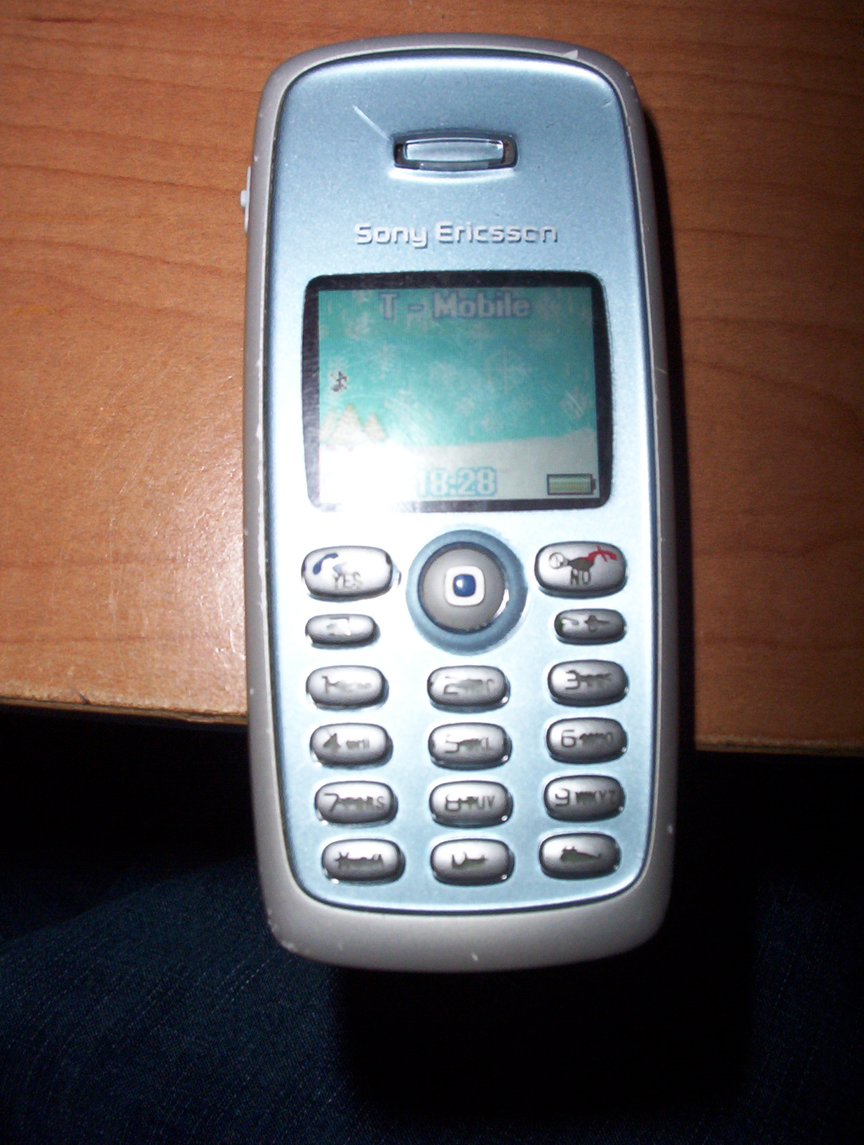 A Sony Ericsson T300 cell phone.